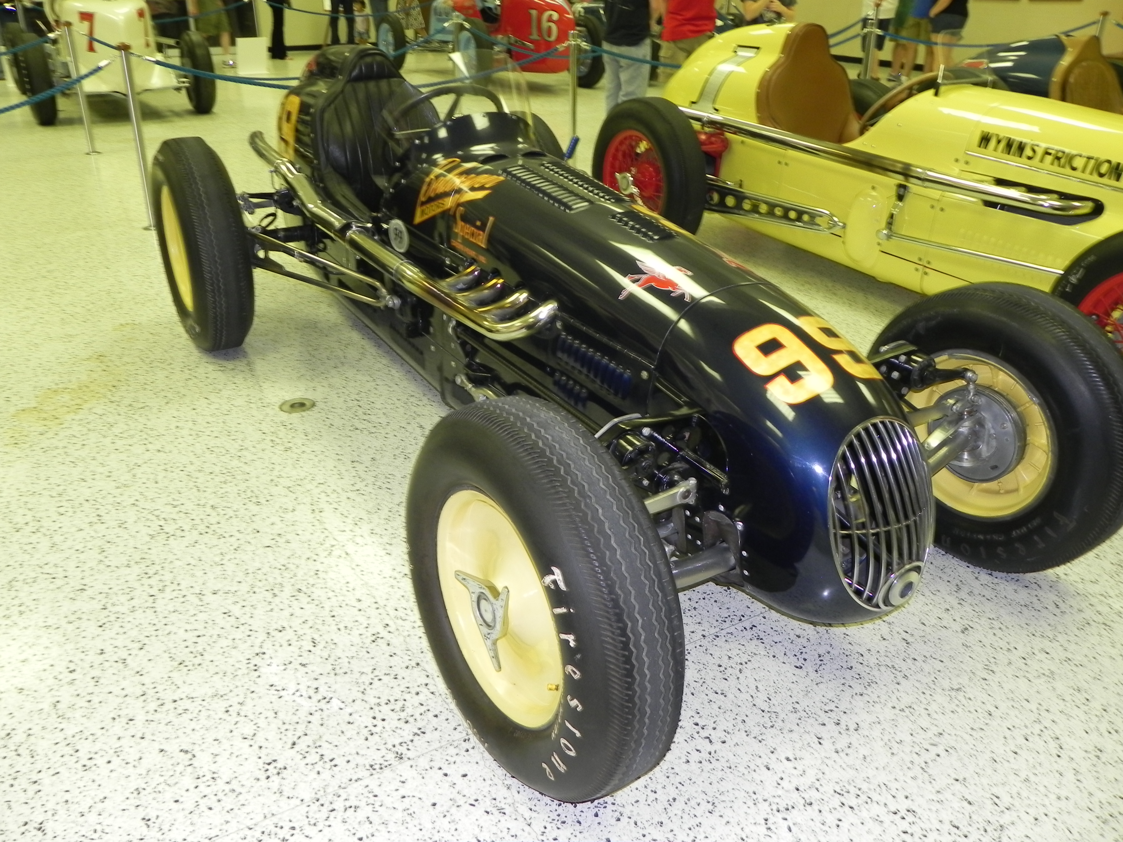 Image of the winning car of the 1951 Indianapolis 500 (Lee Wallard). Photo was taken at the Indianapolis Motor Speedway Hall of Fame Museum, during the month of May 2011, at the 100th Anniversary "Ultimate Indianapolis 500 Winning Car Collection."